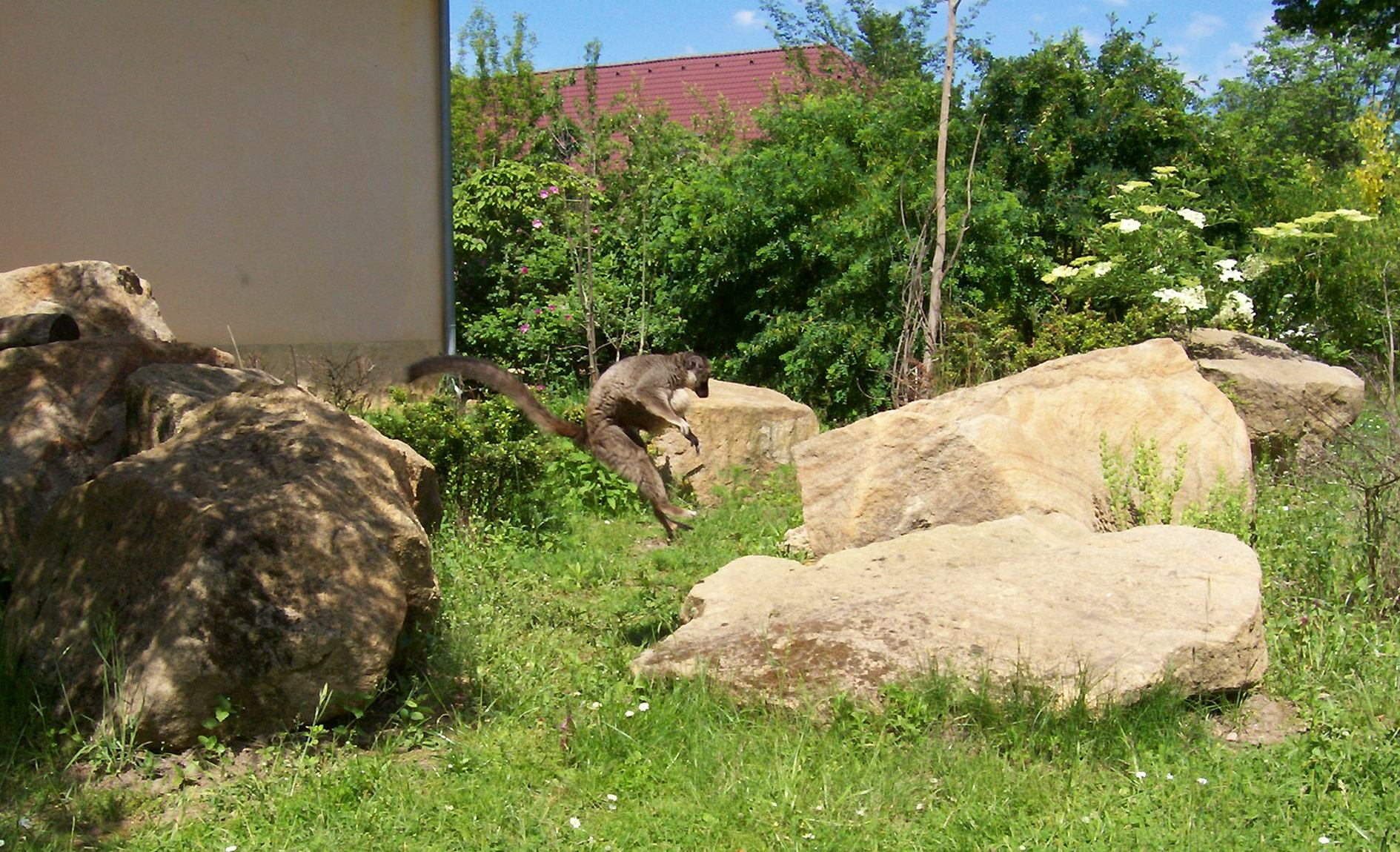 Red-fronted lemur (Eulemur rufus) in ZOO Plzeň